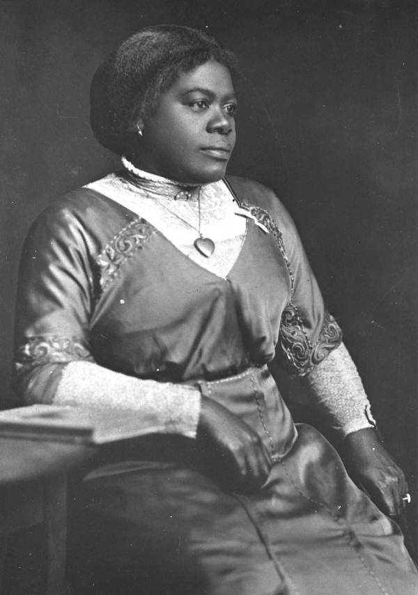 Local call number: PR00755 Title: Mary McLeod Bethune Date: ca. 1910 General Note: One of the nation's prominent educators and civil rights leaders, Bethune's political career included appointments to the National Youth Administration by President Franklin D. Roosevelt and as a delegate to the founding conference of the United Nations by President Harry S. Truman. She established a school for girls in Daytona Beach that later became Bethune-Cookman College. Physical descrip: 1 photoprint - b&w - 10 x 8 in. Series Title: Print collections Repository: State Library and Archives of Florida, 500 S. Bronough St., Tallahassee, FL 32399-0250 USA. Contact: 850.245.6700. Persistent URL: Visit Florida Memory to find resources for Women's History Month and to learn more about the contributions of women in Florida history. Visit Florida Memory to find resources for Black History Month and to learn about the contributions of African-Americans in Florida history. Visit Florida Memory to learn more about Mary McLeod Bethune.